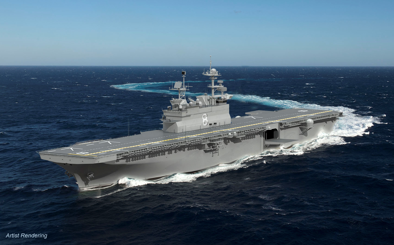 160628-O-N0101-110 WASHINGTON (June 28, 2016) An artist rendering of the future USS Bougainville (LHA 8). Huntington Ingalls Industries’ Ingalls Shipbuilding division is scheduled to begin construction in the fourth quarter of 2018, and delivery is expected in 2024. Bougainville will retain the aviation capability of the America-class design while adding a well deck capable of launching two landing craft air cushion hovercraft or one landing craft utility. Bougainville will have a larger flight deck configured for Joint Strike Fighter and Osprey V-22 aircraft. (U.S. Navy photo illustration courtesy of Huntington Ingalls Industries/Released)